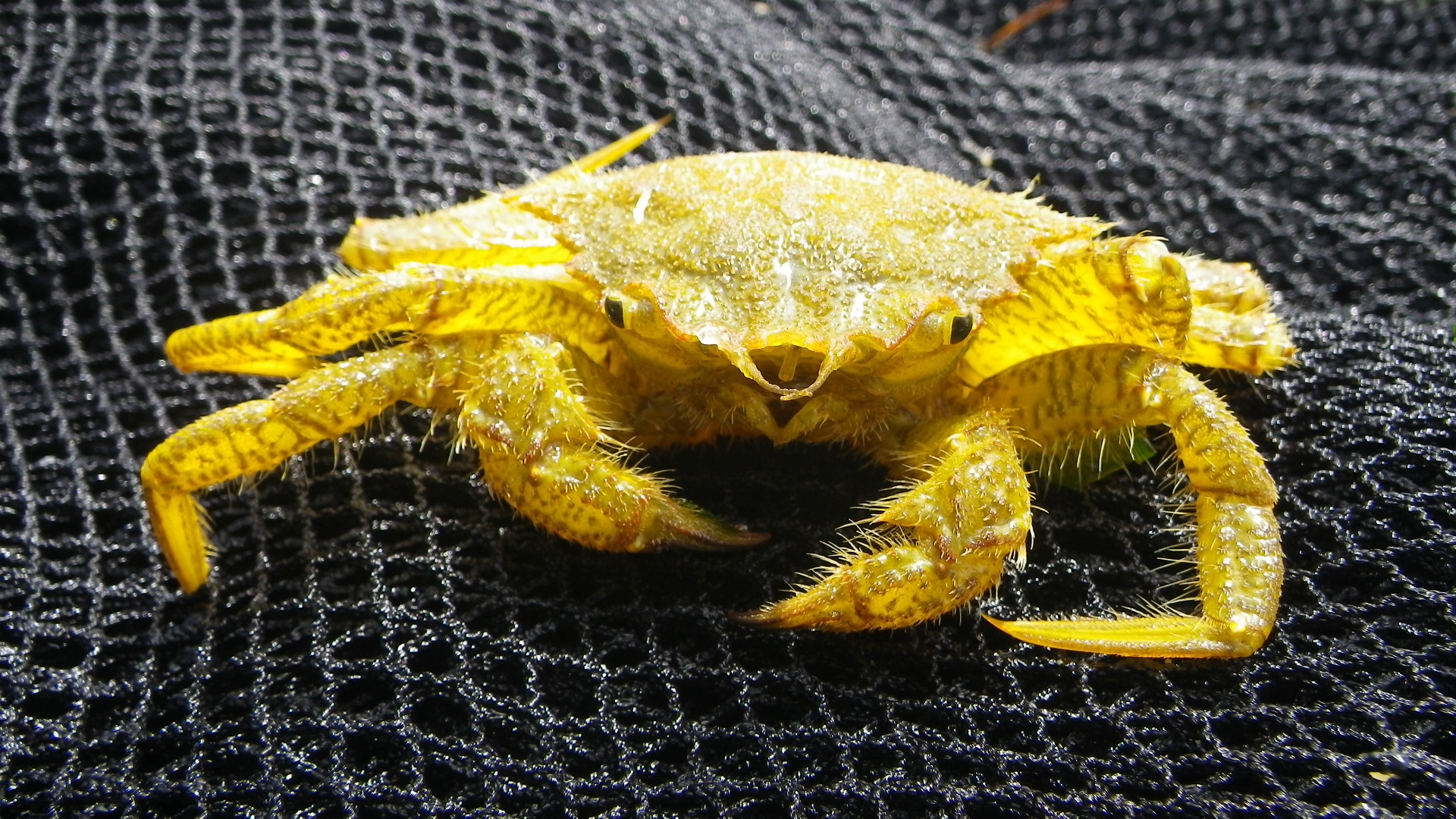 A helmet crab (Telmessus cheiragonus) captured in a beach seine during a larval forage fish survey. Bainbridge Island, Washington, USA, June 2012.